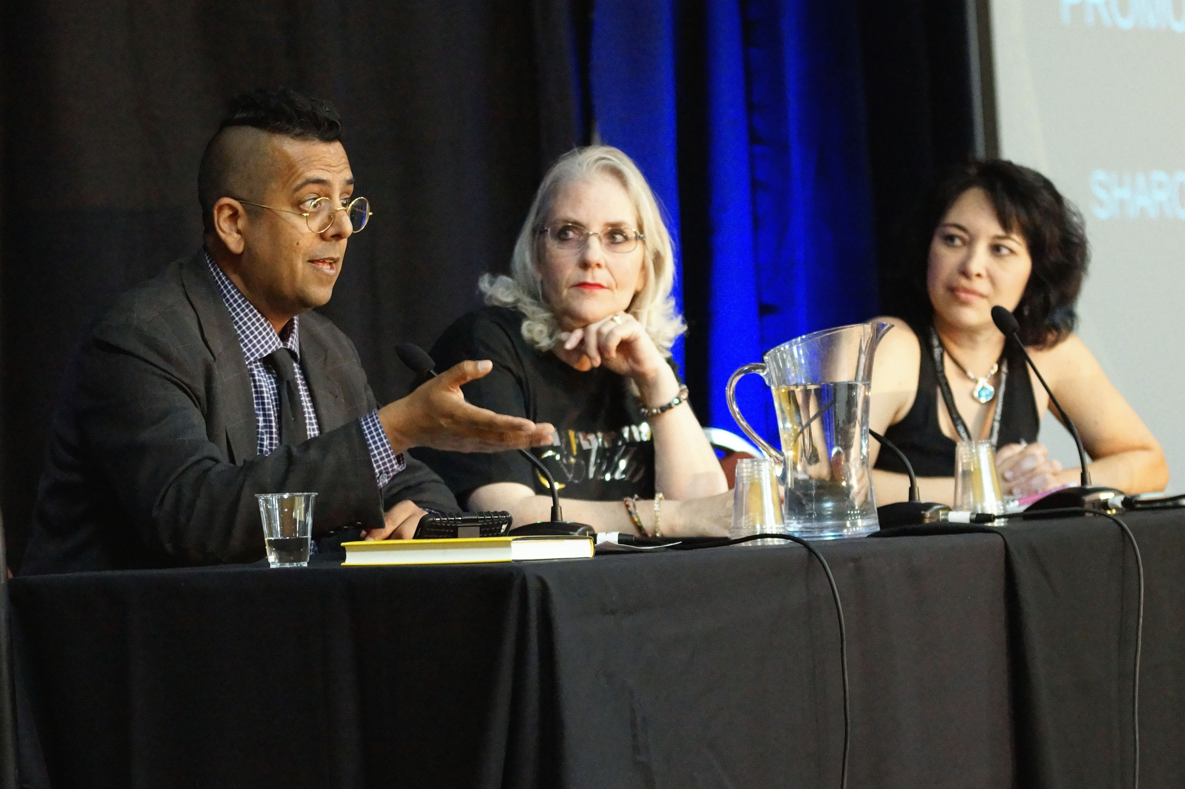 Simon Singh, Susan Gerbic and Sharon Hill participate in the "Practical Skepticism: Promoting Everyday Good Thinking" workshop at TAM 13 in Las Vegas, Nevada on July 16, 2015.